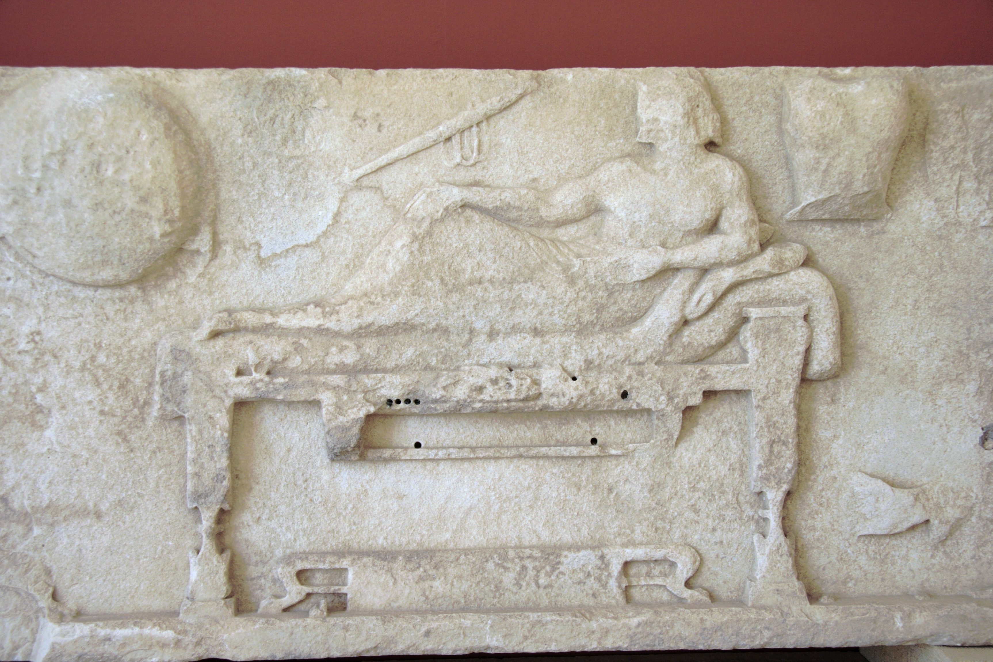 The relief stele of Archilocheion in Paros, around 500 BC. Archilochos lying on a massage table, sitting left his wife, right to operate boy. On the wall hangs a shield, quiver and lyre. Archaeological Museum on Paros A758.